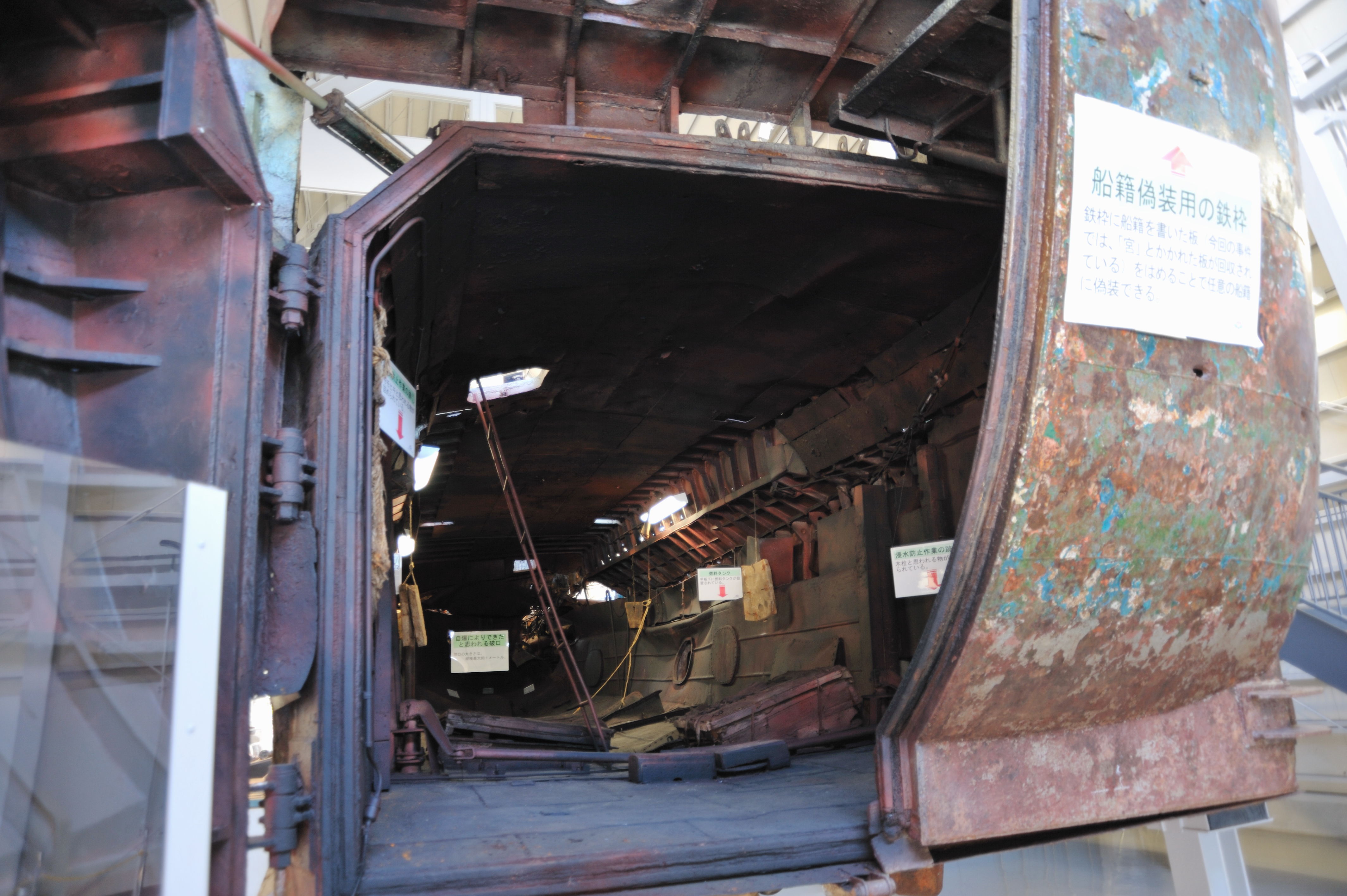 North-Korean Spy Vessel Rear View